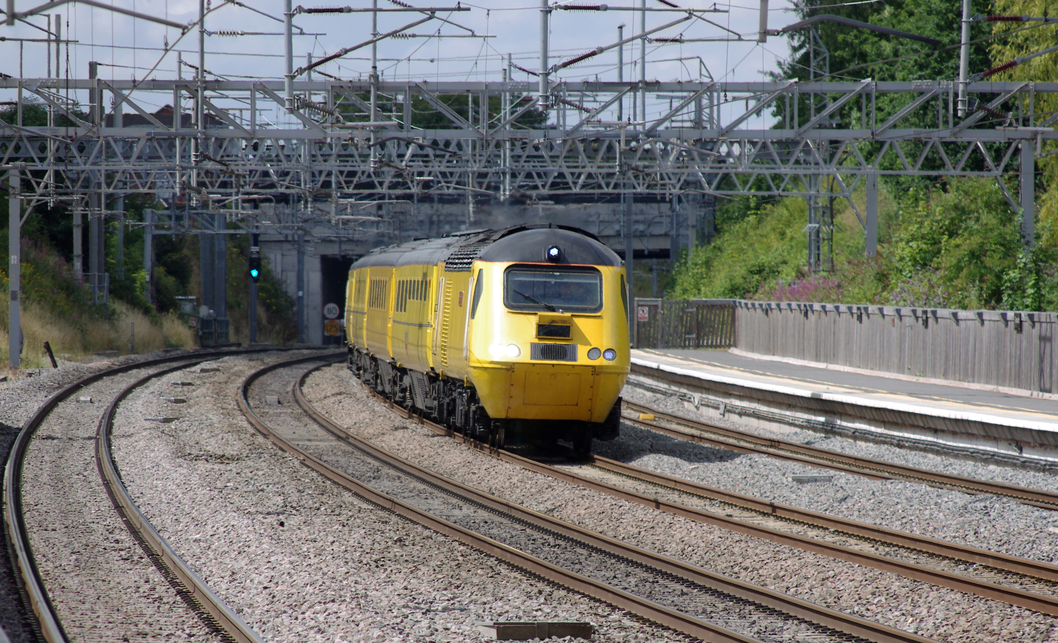 Network Rail's New Measurement Train, headed by 43062, powers south-east through Tamworth on the West Coast Main Line.